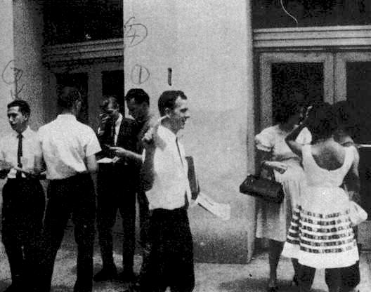 Lee Harvey Oswald and others handing out "Fair Play for Cuba" leaflets in New Orleans, August 16, 1963